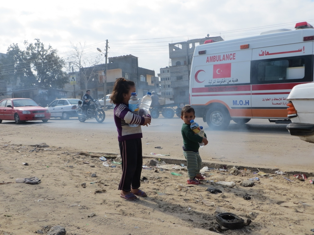 Description from B'Tselem source: "Severe problems with water supply in West Bank and Gaza, February 2014." Photo caption from source: "Children hauling water bottles near Khan Yunis Water Authority’s wastewater treatment plant."